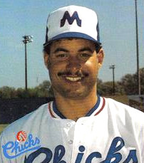 Professional baseball player Mauro Gozzo